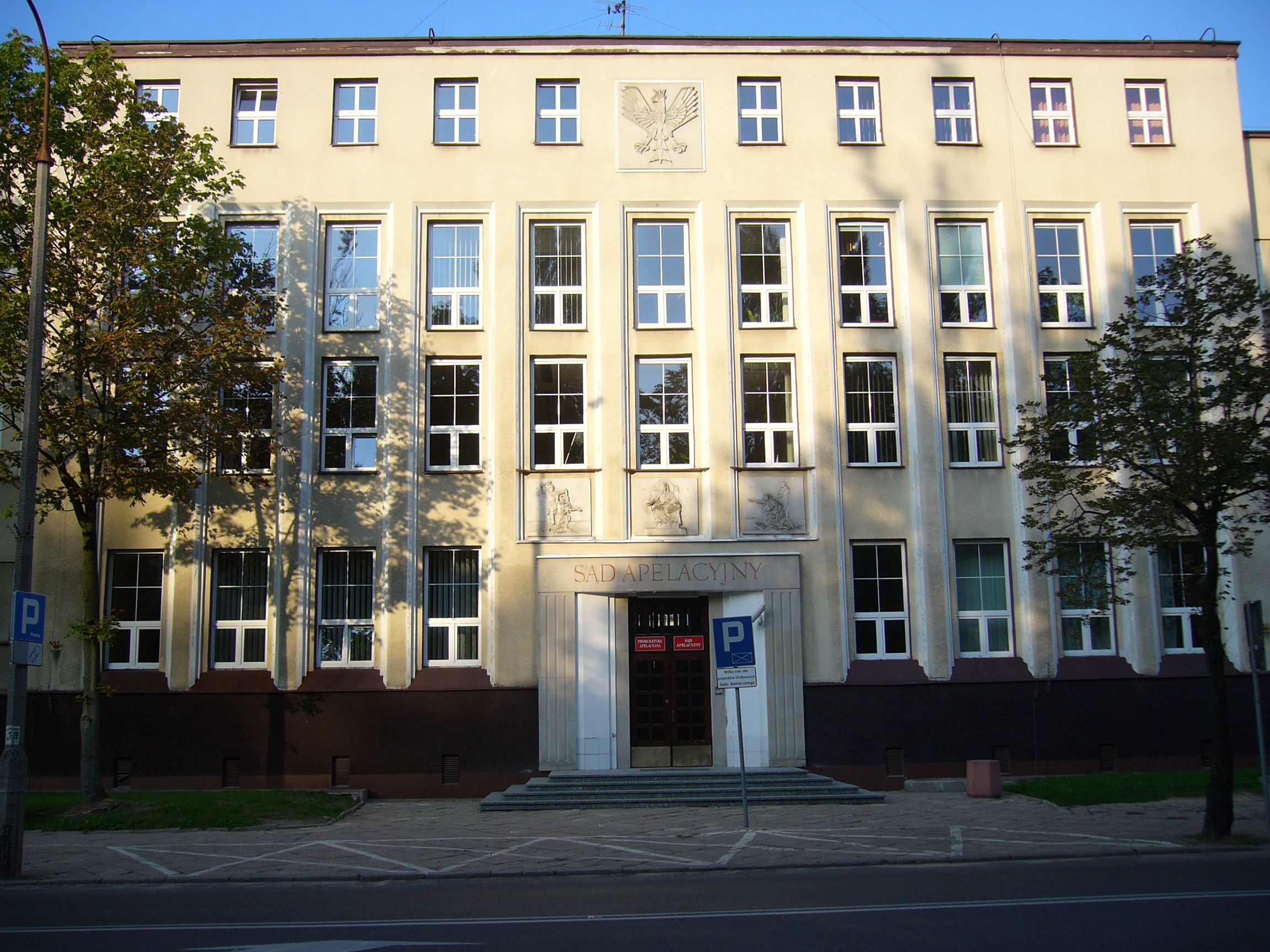 Building of Court of Appeal in Białystok, Mickiewicza 5 street.